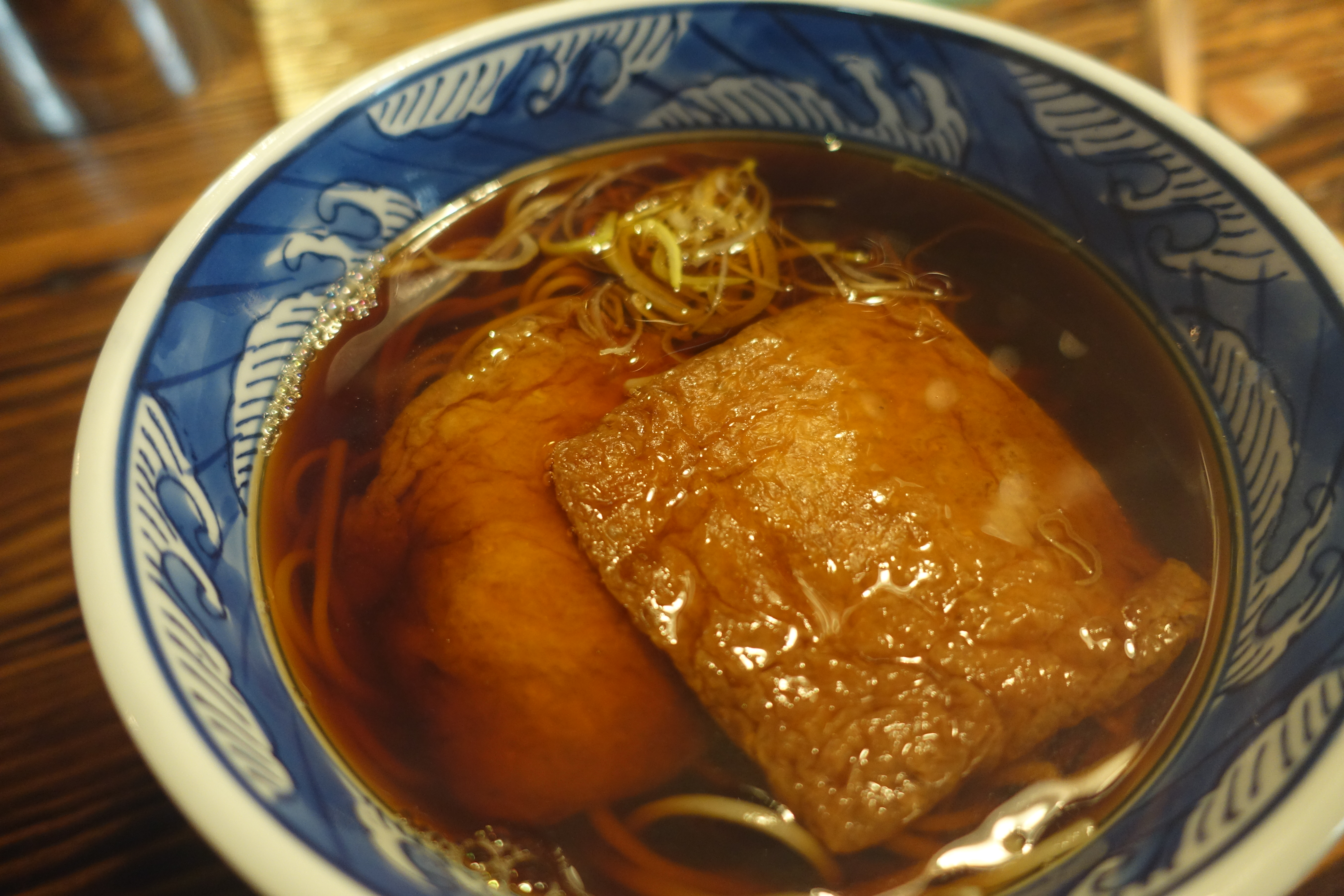 Fried tofu @ Kitsune Soba @ Abri Soba @ Paris